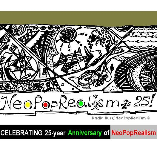 NeoPopRealism is 25! by Nadia Russ